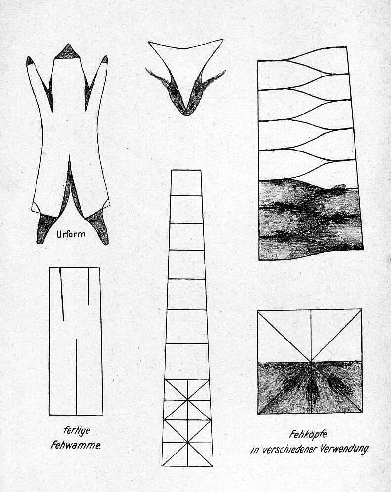 Graphics for Furriers